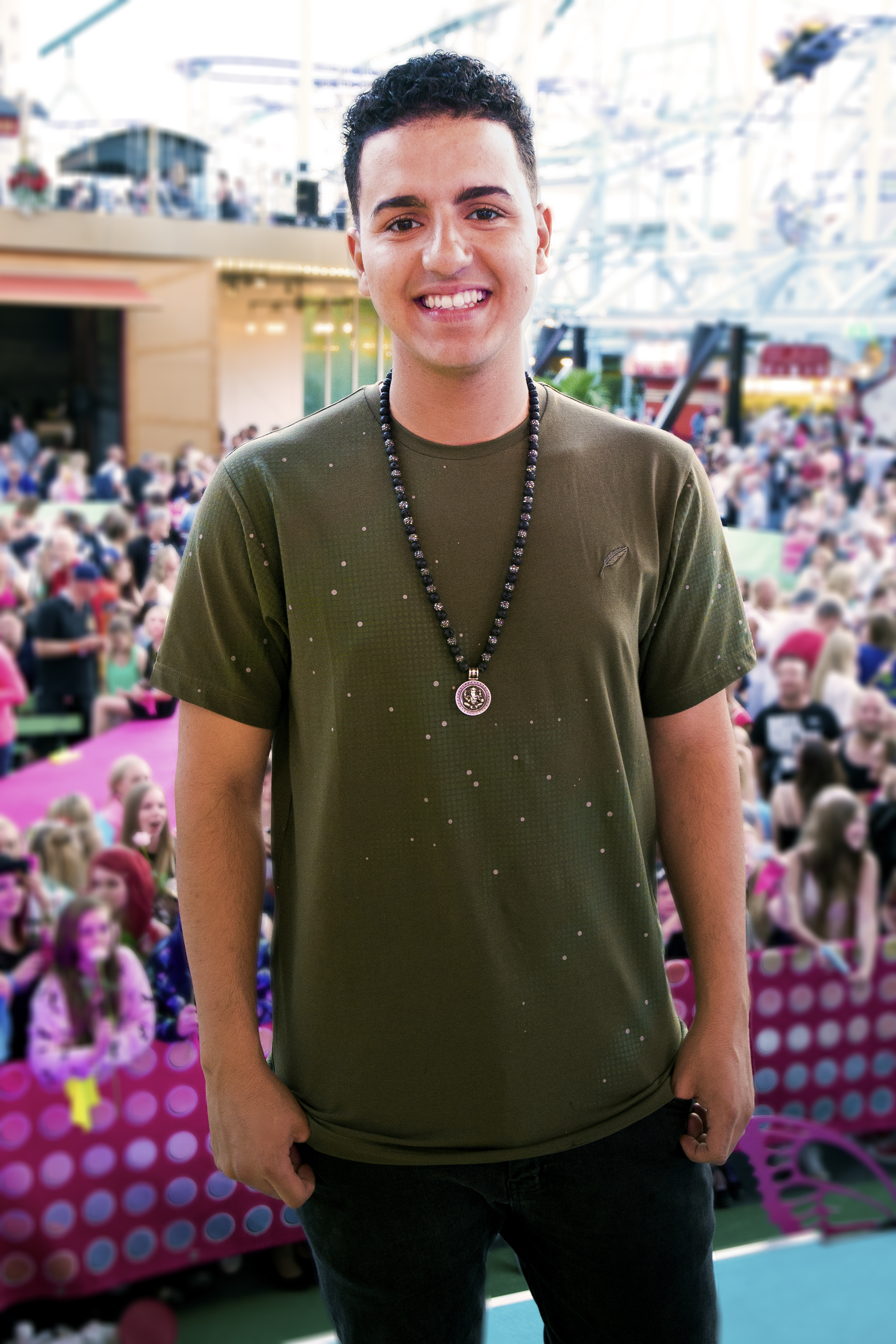 Basim at Sommarkrysset in Stockholm, Gröna Lund